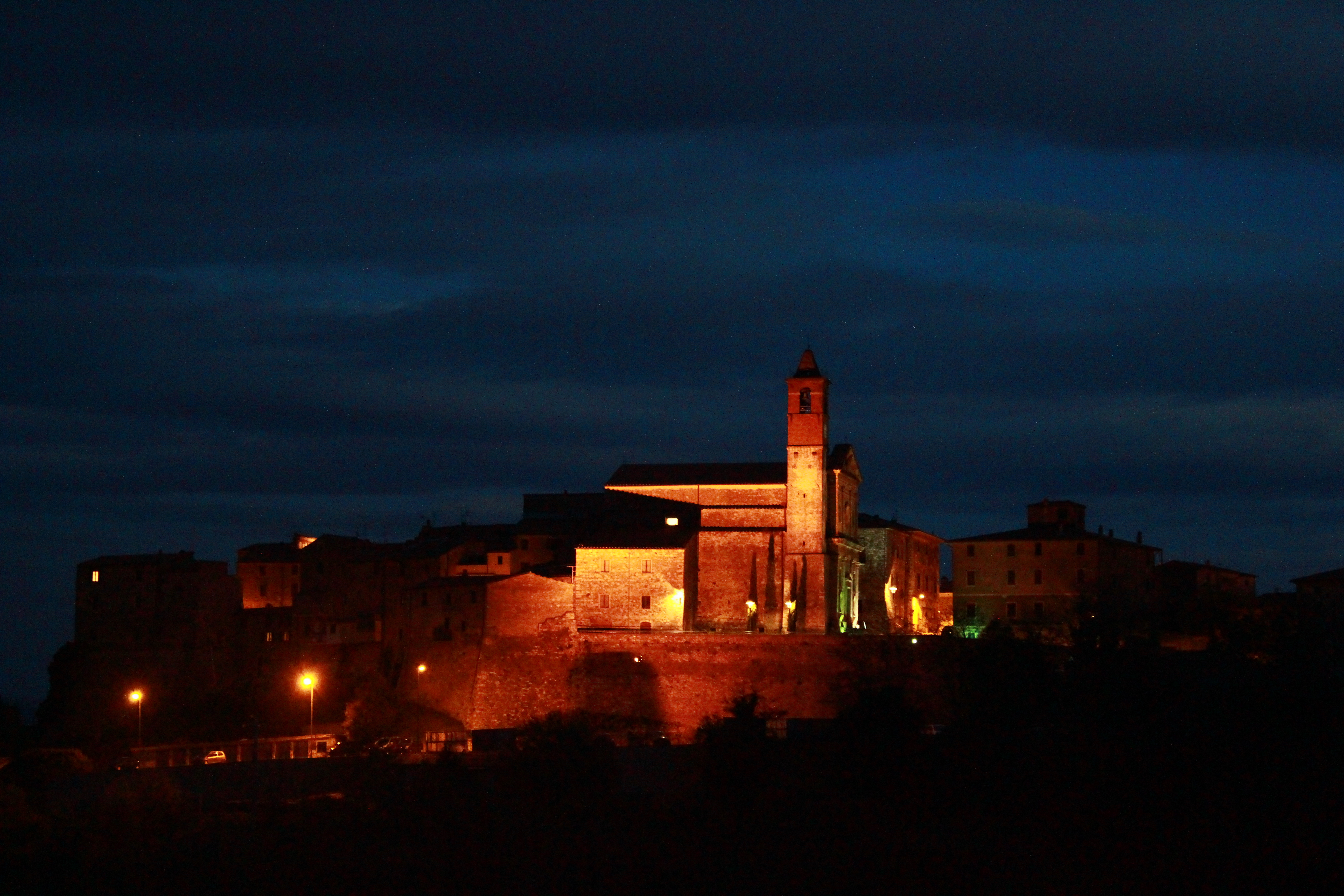 View of Caldana